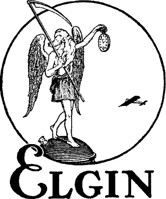 Promotional logo of the Elgin National Watch Company, featuring Father Time